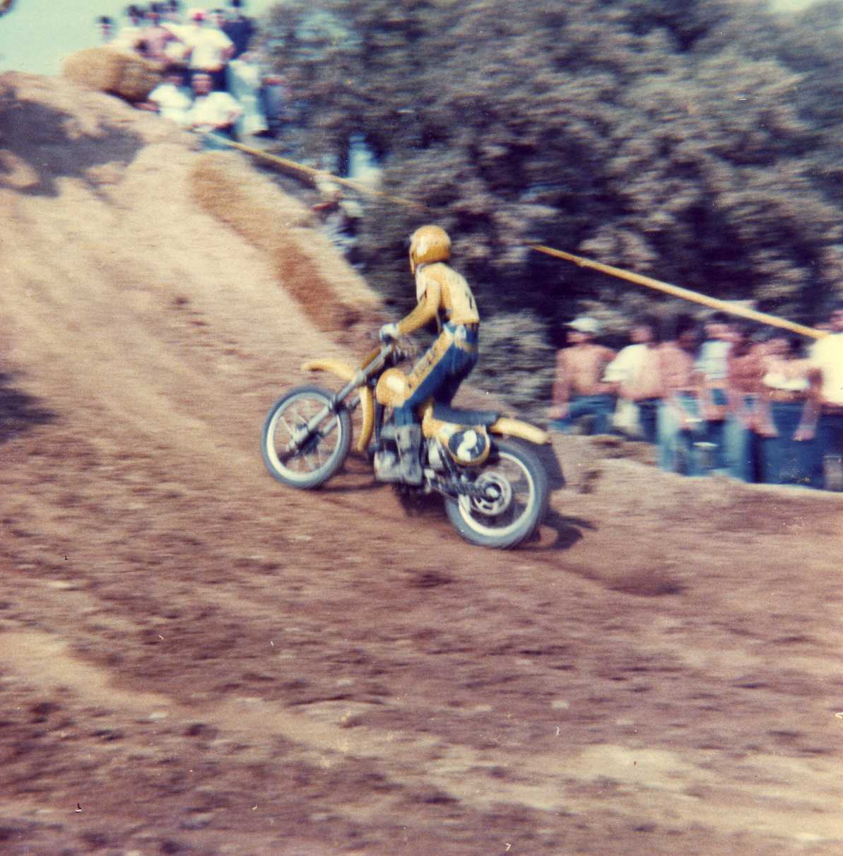 Akira Watanabe with his Suzuki at Circuit del Cluet, Montgai (Catalonia), during the 1978 spanish MX GP 125cc.